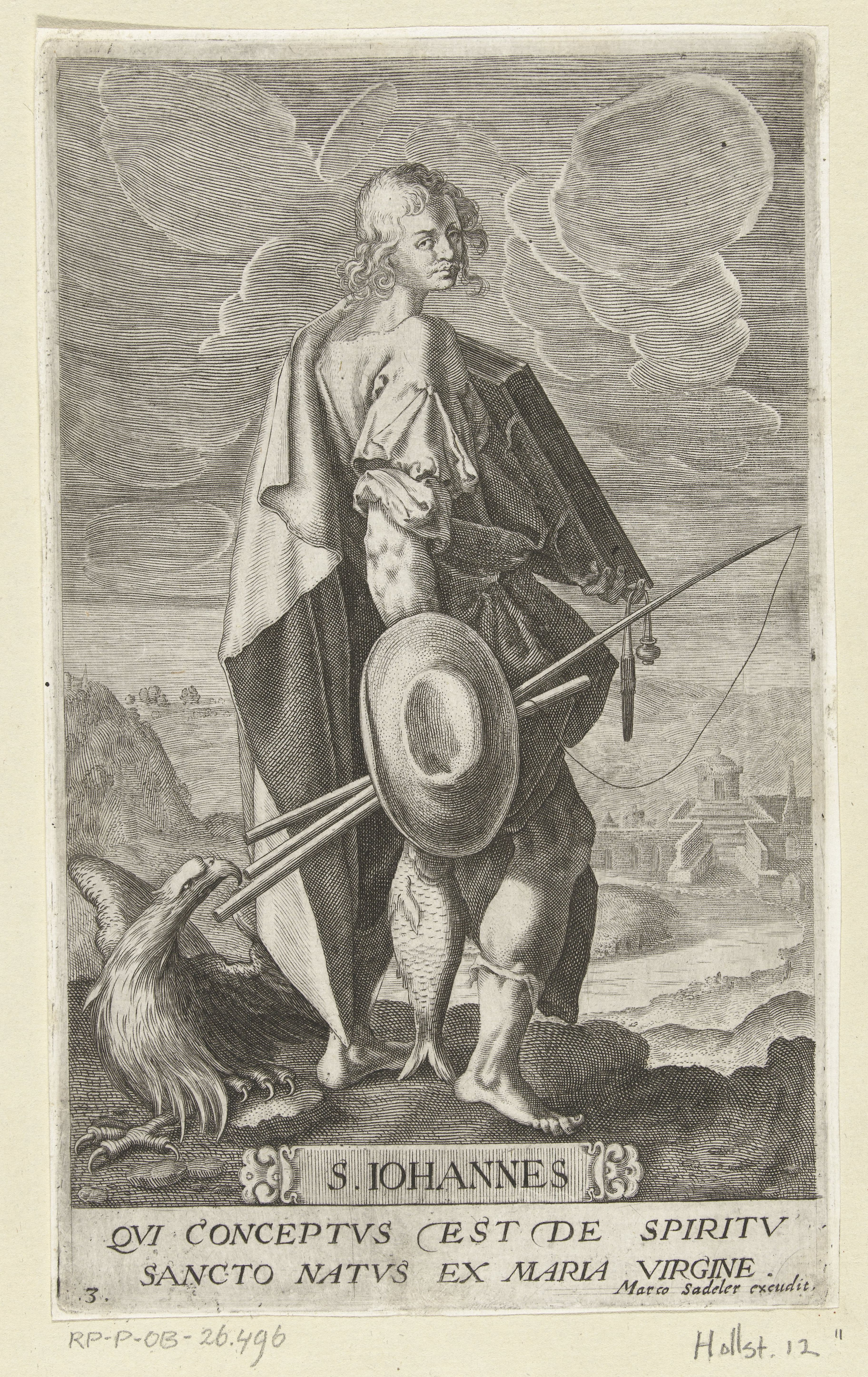 From a series of Christ and twelve apostles (series title). Apostle and evangelist John with book and fishing rod with caught fish stands next to eagle. Below the performance is a Latin line from the apostolic confession.